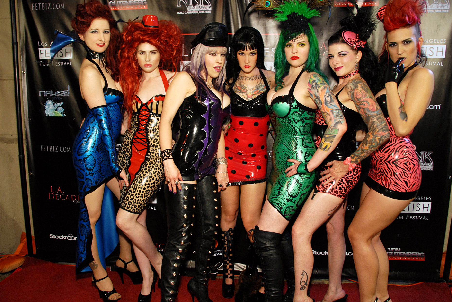 Fetish Models at The Los Angeles Fetish Film Festival, Hollywood, CA on April 16, 2011 - Photo by Glenn Francis of